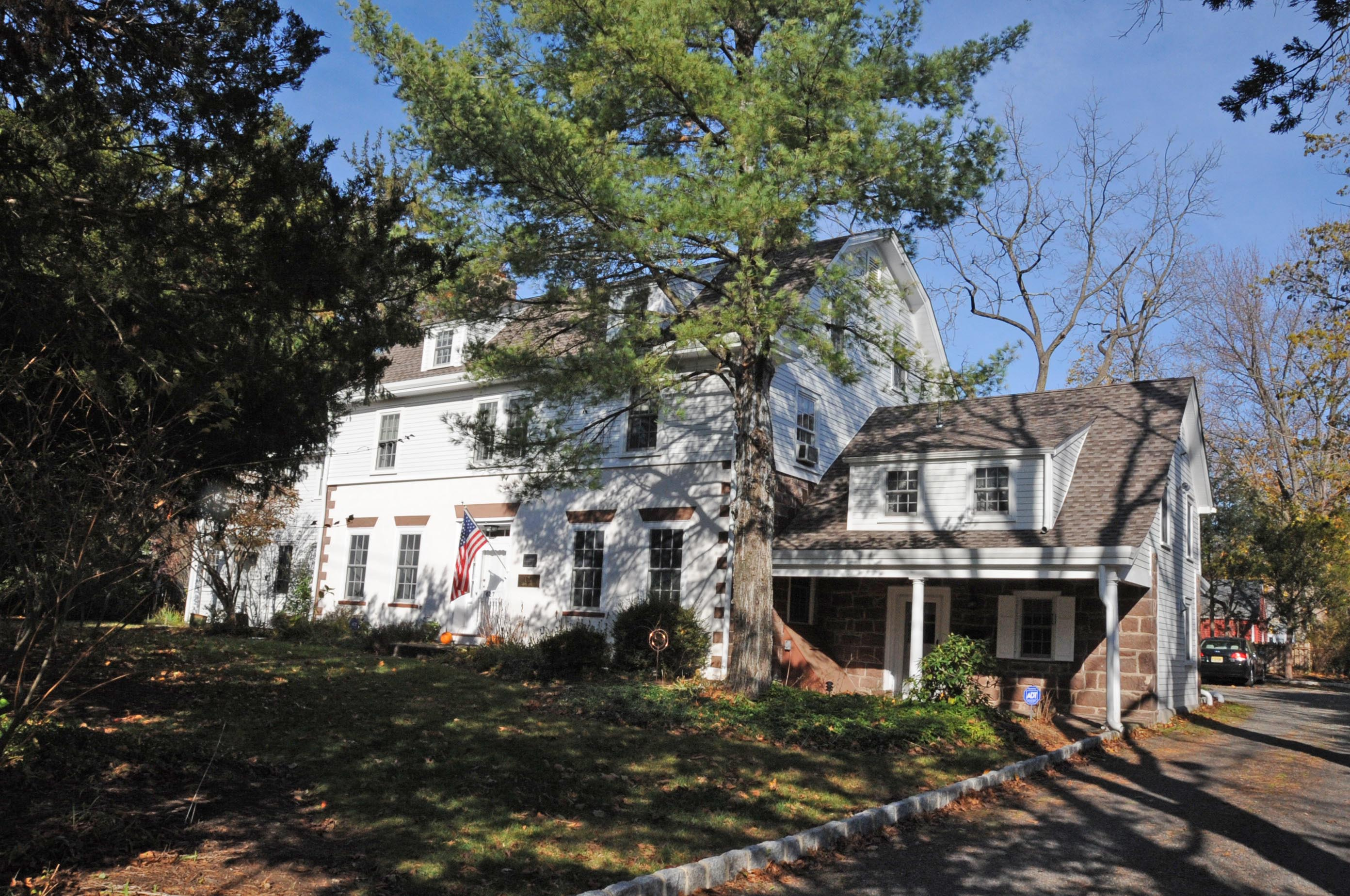 PROPERTY WAS ACQUIRED BY GARRET VAN DIEN IN 1817 AND ONE OF HIS DESCENDANT BUILT THE HOUSE USING A COMBINATION OF 18TH AND 19TH CENTURY ARCHITECTURE AT A LATER UNCERTAIN DATE; HAS REMAINED IN VAN DIEN FAMILY UNTIL 1900